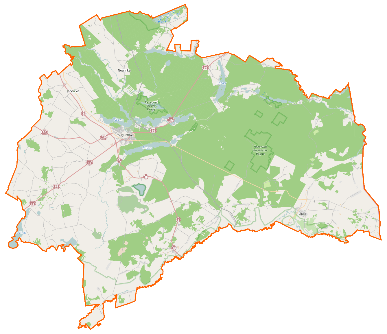 Map of Powiat augustowski, Poland This map of Powiat augustowski was created from OpenStreetMap project data, collected by the community. This map may be incomplete, and may contain errors. Don't rely solely on it for navigation.